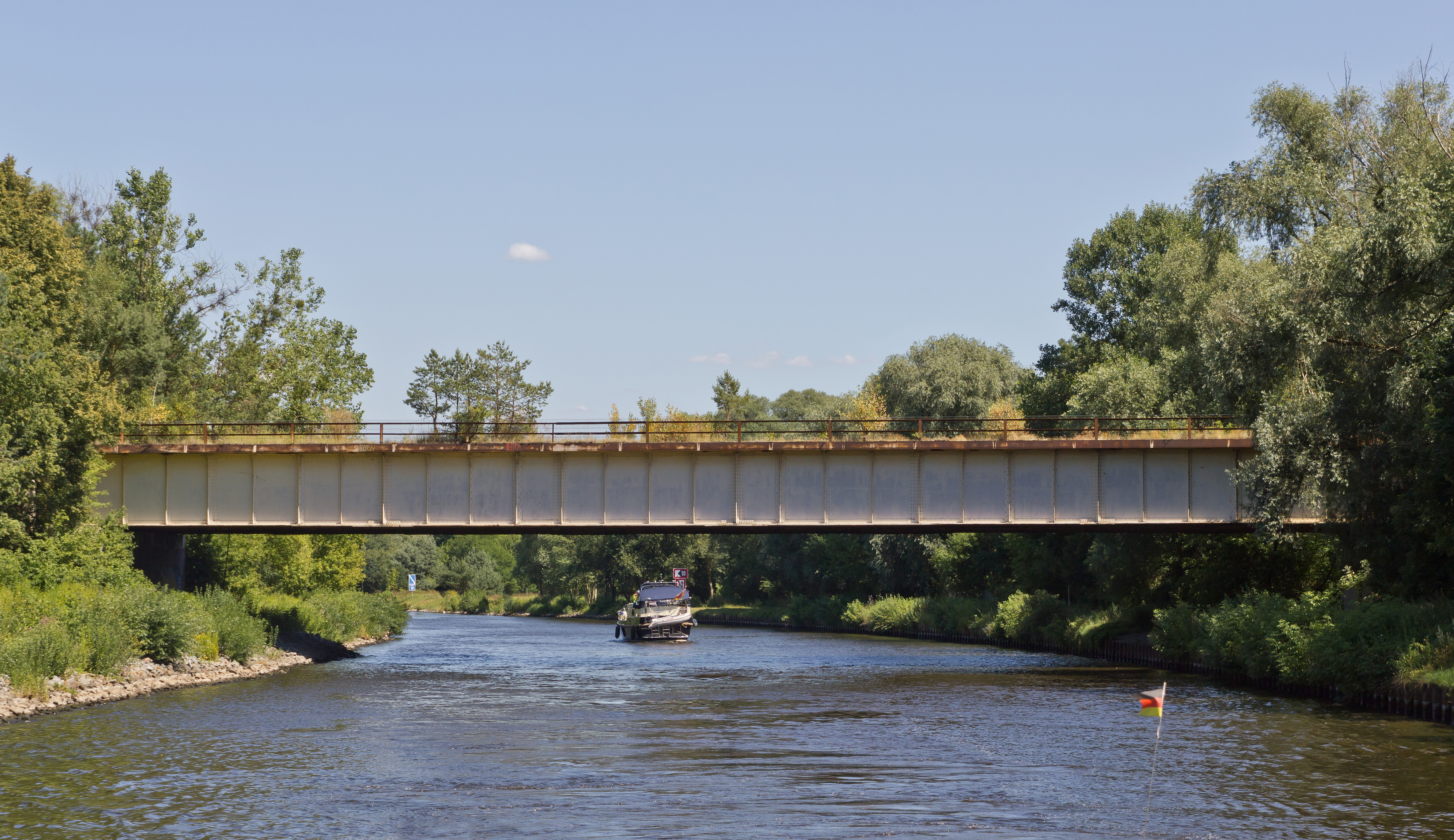 Abandoned road bridge across Teltow Canal near Dreilinden, Berlin, Germany